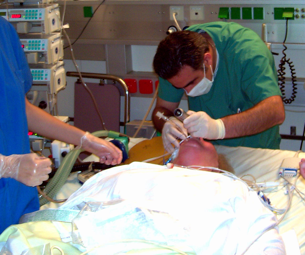 Emergency intubation